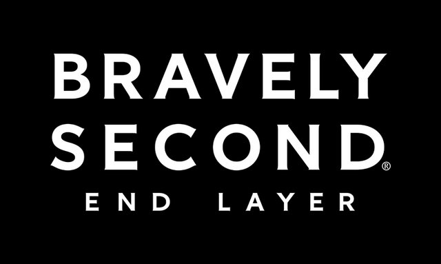 The logotype for the video game Bravely Second: End Layer.